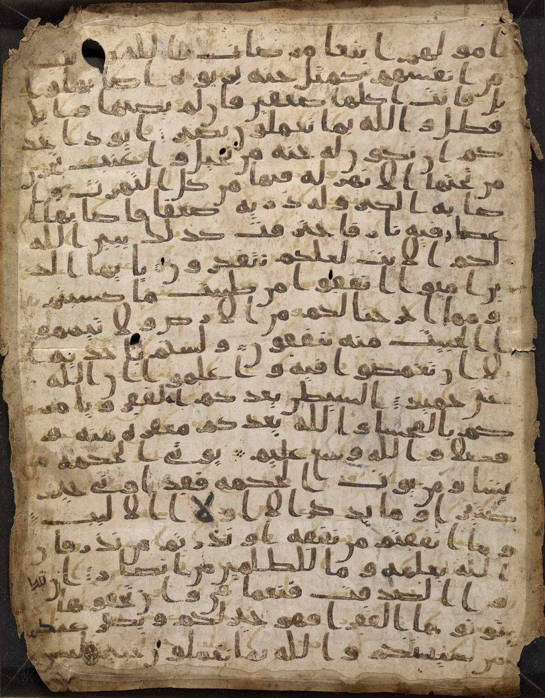 Recto side of the Stanford '07 folio, provided by Behnam Sadeghi in p. 349 of his "The Codex of a Companion of the Prophet and the Qur'ān of the Prophet"